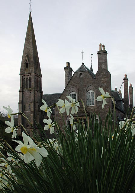 The Cathedral of the Isles, Millport, Isle of Cumbrae